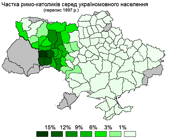 Share of roman catholics among ukrainian-speaking population, 1897 census